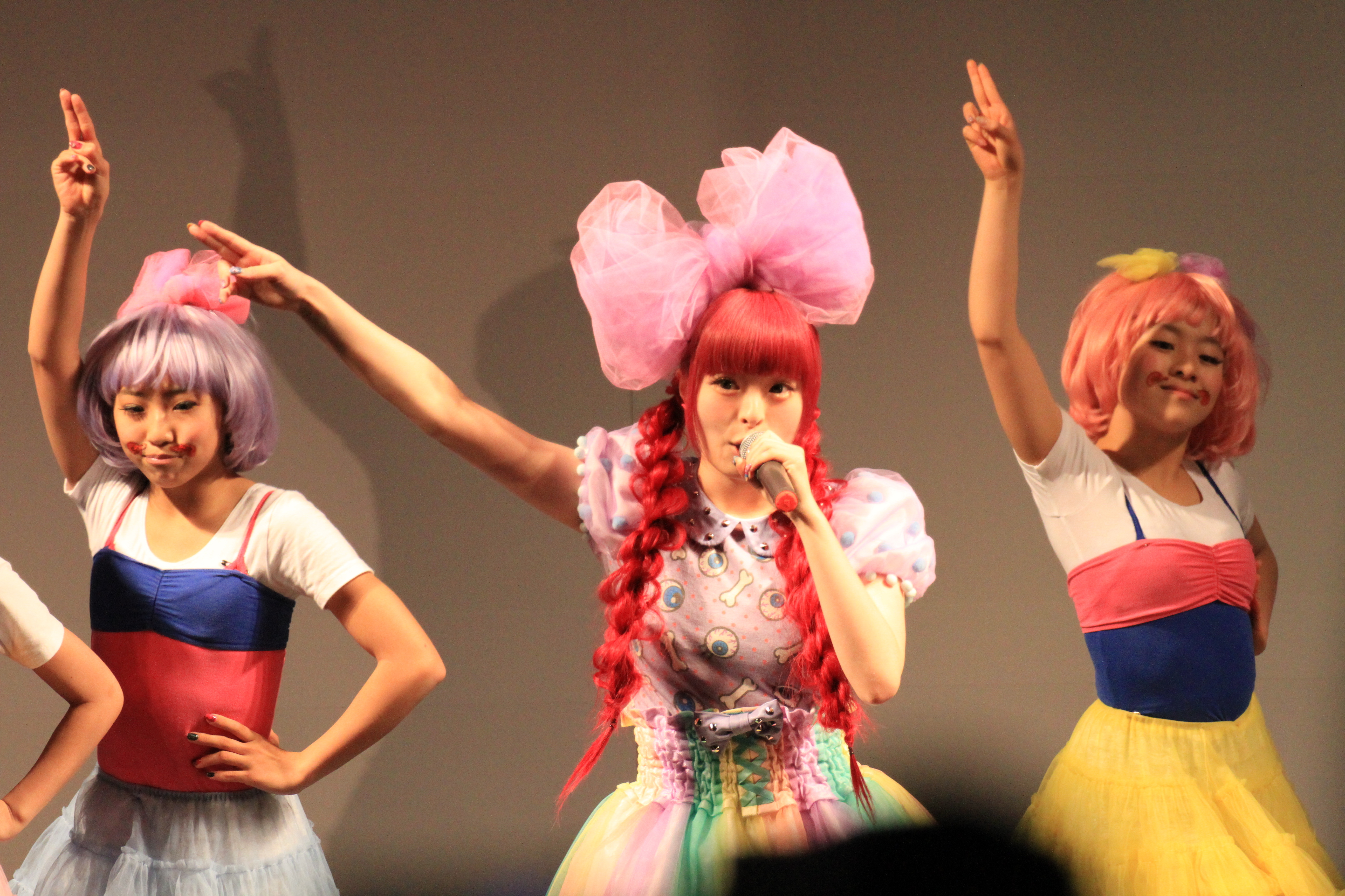 Japanese singer Kyary Pamyu Pamyu performing at the 4th Okinawa International Movie Festival, 30 March 2012. She performed her three songs, "Tsukematsukeru", "Candy Candy", and "Kyary no March".